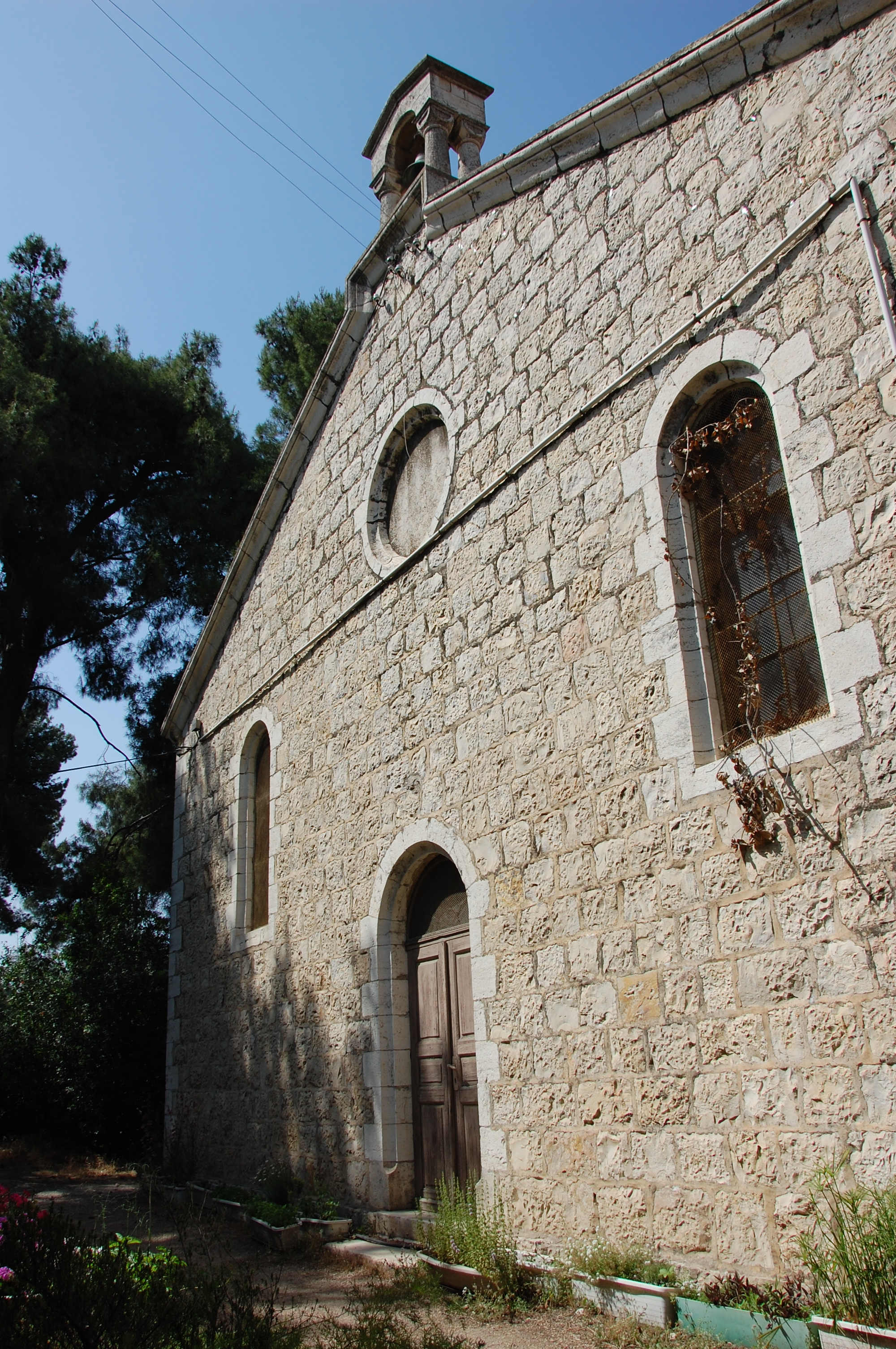 templer house in emek refaim 1